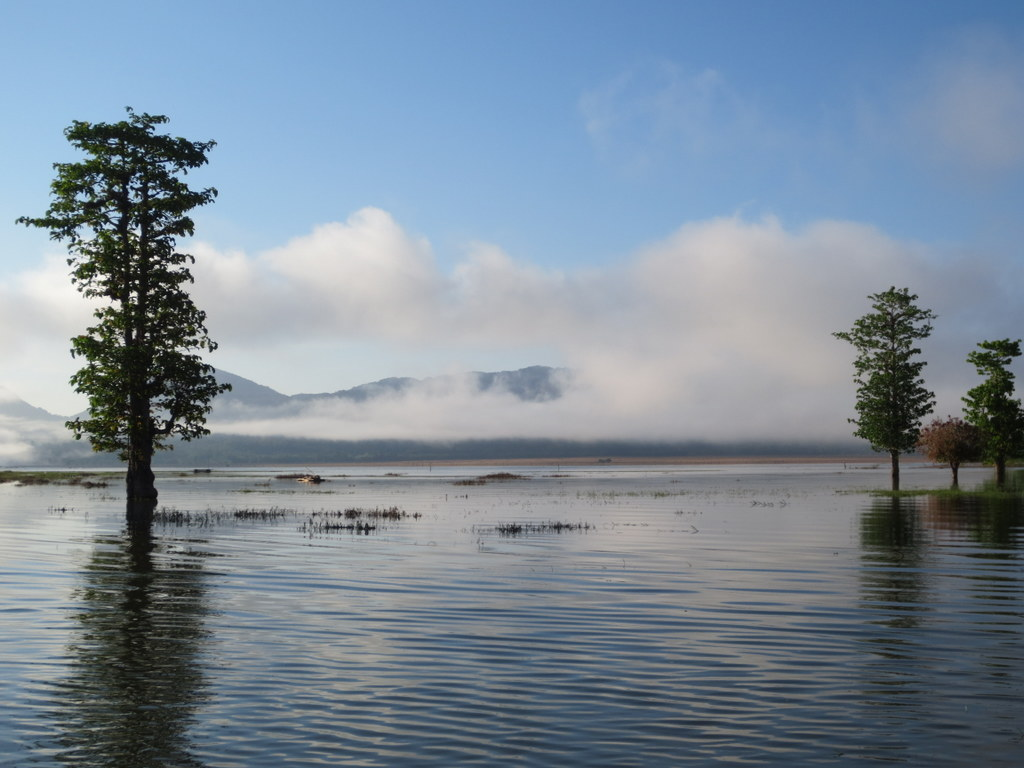 Flooded Lake Iralalaro view